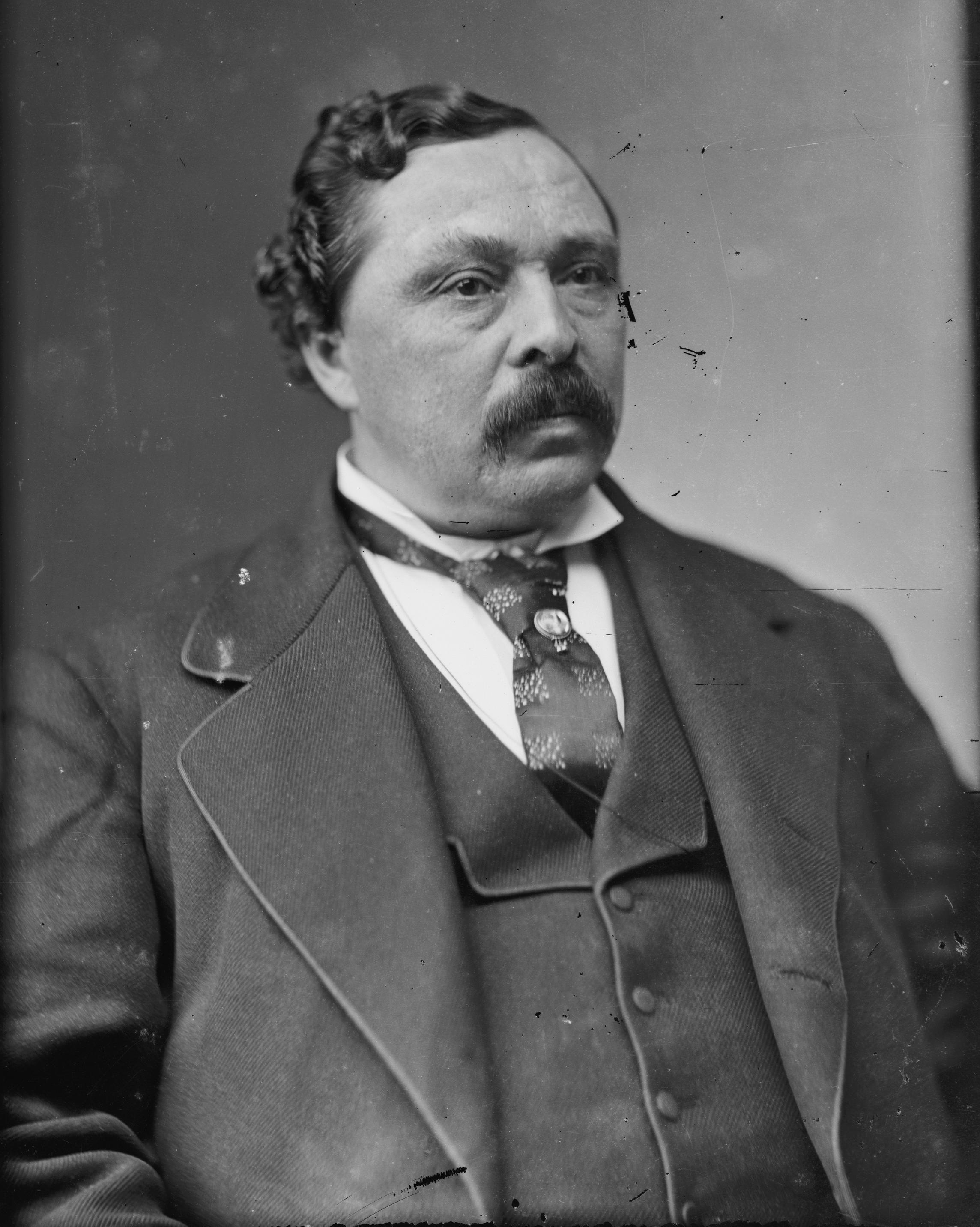 Nicholas Muller. Library of Congress description: "Muller, Hon. Nicholas of N.Y.".